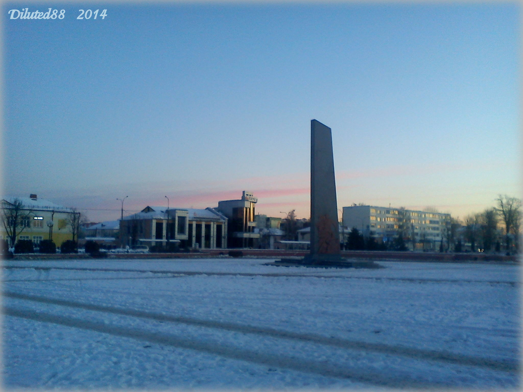 Ранішні выгляд плошчы Вызваліцеляў ў Жлобіне ... The morning view of the square Liberators in Zhlobin